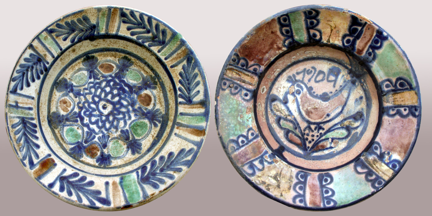 Ceramic plates from Zalău. The year 1904 is depicted on the second plate, above the bird.